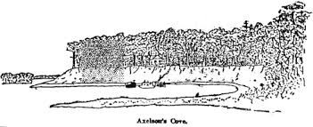 The sketch is of Axelson Cove and Axelson Point. Axelson Point is located in Navarre, Florida. It is the site of the first exploration of the area in the 1600s and the first homestead (established 1850) in what would become Navarre. The sketch itself is taken from F.F. Bingham's Log of the Peep o' Day, written as a diary/journal between 1912 and 1915.